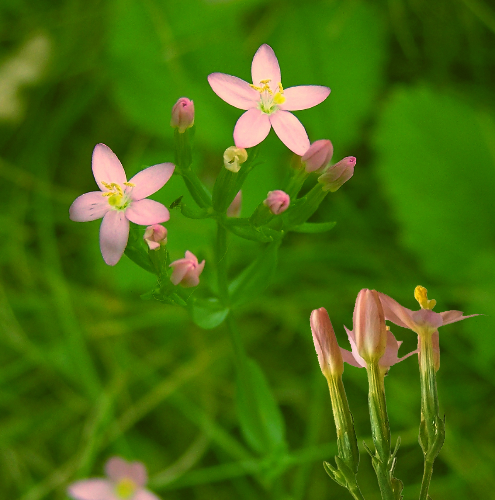 Species: Centaurium erythraea subsp. erythraea